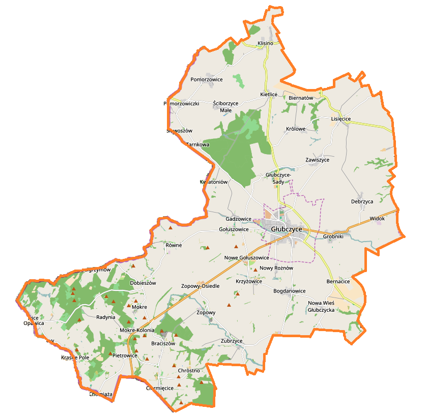 Location map of Głubczyce (gmina), Poland.